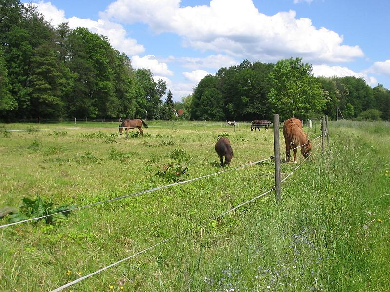 Field nearby the village Gömnigk, an incorporated part of the town Brück in Brandenburg, Germany.